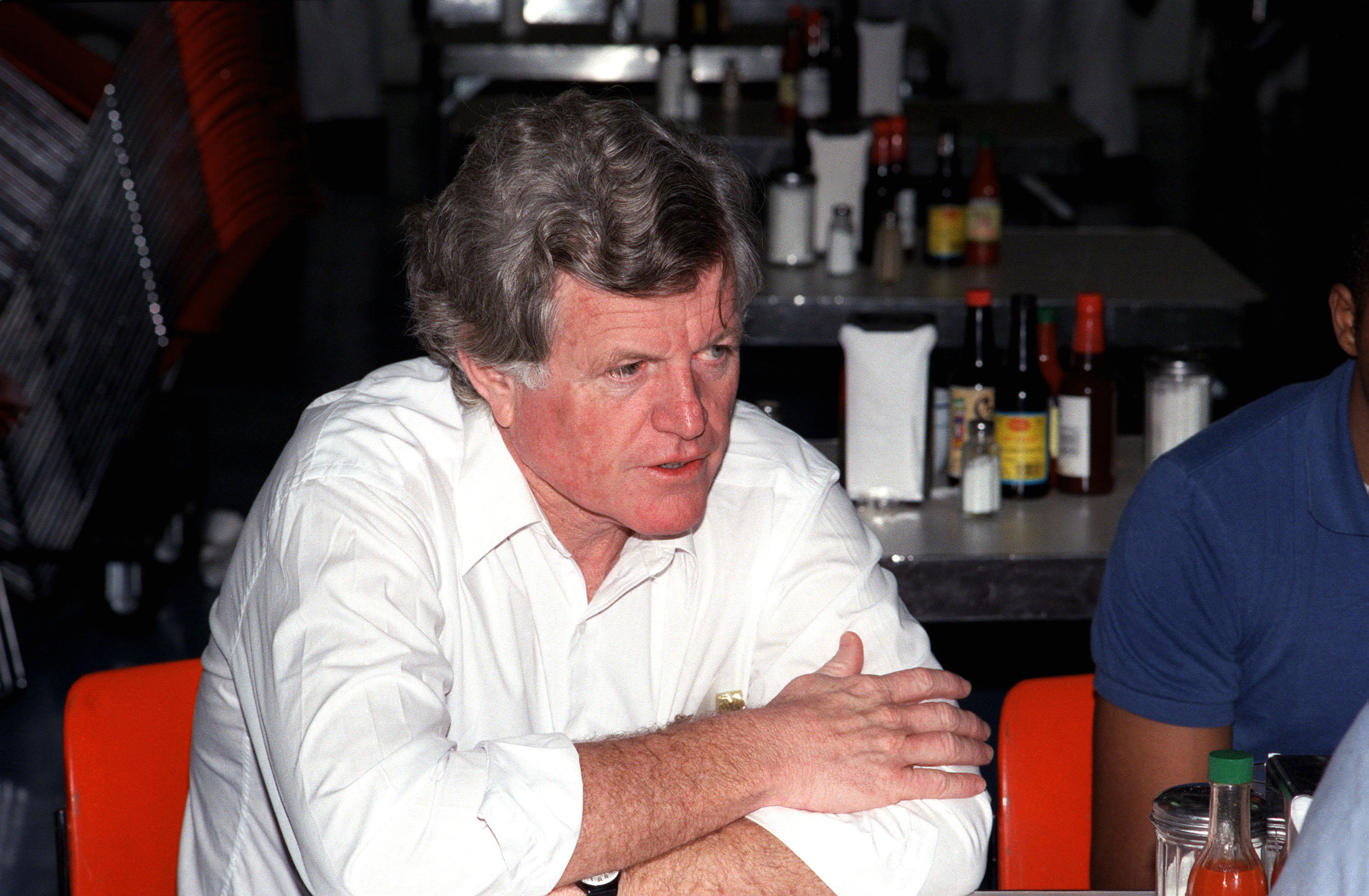 02/13/1987 - Senator Edward Kennedy, D-Mass., sits with crew members in the mess deck while visiting aboard the nuclear-powered aircraft carrier USS THEODORE ROOSEVELT (CVN 71).